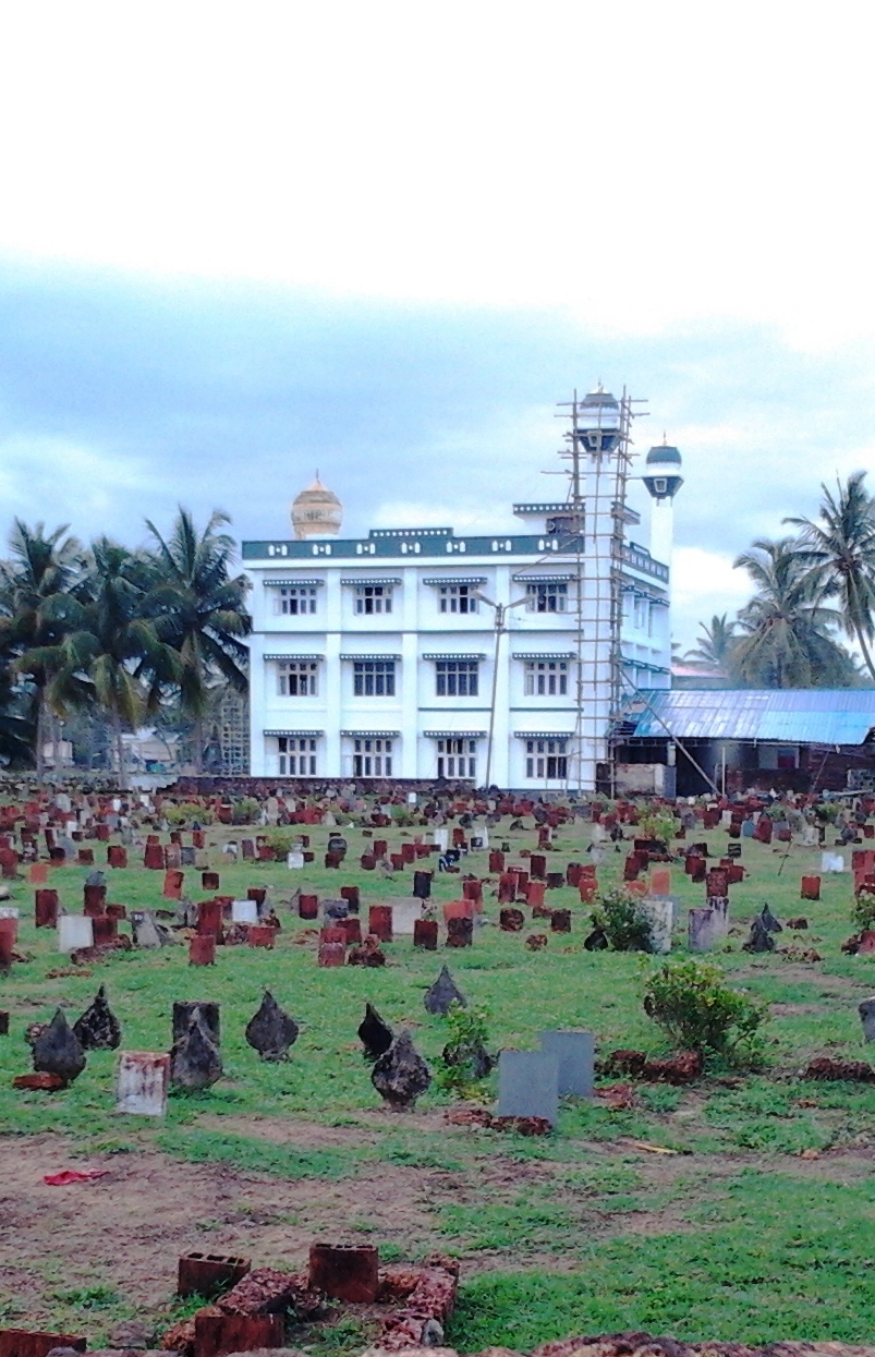 Kannam Paramba Mosque and cemetry, near Chakkum Kadavu Bridge, Kuttichira, Kozhikode, Kerala, India.